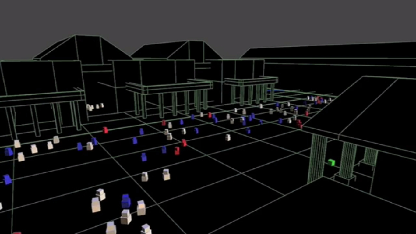 This is my crowd simulation of Covent Garden, London. It was created using Massive software for my specialist project in my second year. My main focus was on brain creation.